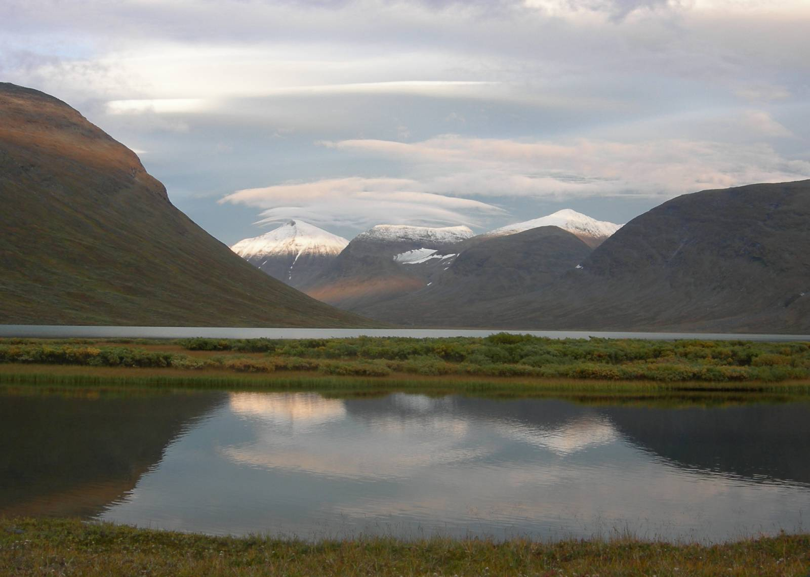 Alggavagge Valley with Alggajavrre (Alkajaure) Lake in Sarek National Park (foreground: Padjelanta National Park), Sweden